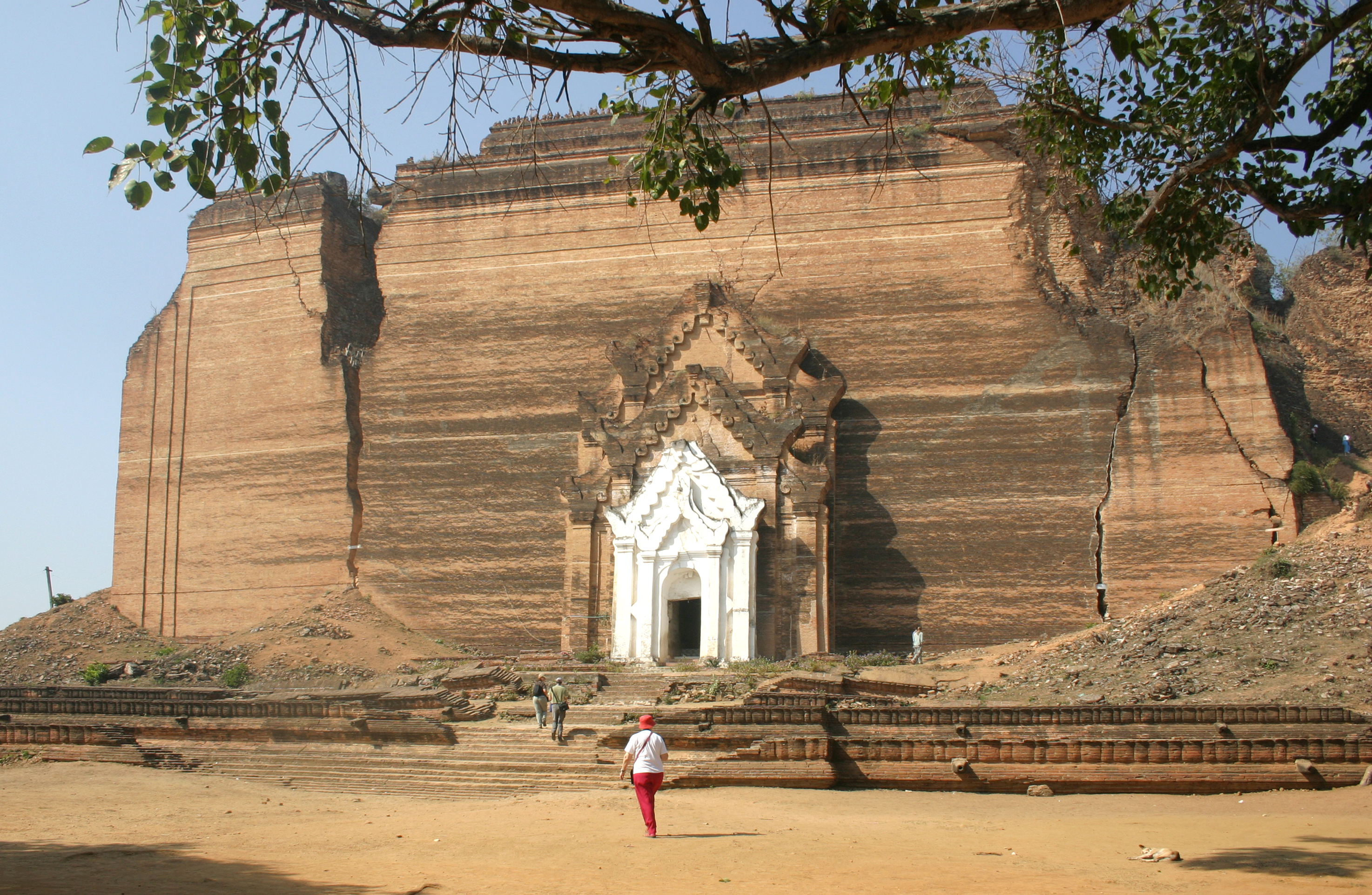 Mingun-Pagoda, Mingun, Myanmar